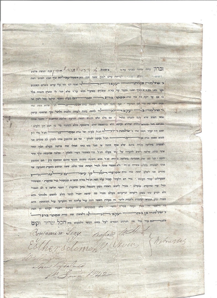 This is a copy of a wedding contract on parchment, given to me by my grandmother. It documents the wedding of her maternal great grandparents on June 1st, 1842 in Wellington New Zealand, two years after the city was founded, and it was the first Jewish wedding in Wellington, the second in the country (the first was in Auckland in 1841). The format of the ketubah (marriage contract) is a template, with the bride and groom's names filled in in another handwriting. It also contains the name of the Groom's brother, Solomon Levy, who promises in the contract to marry the bride should her husband die and she be childless (a nearly archaic promise in Anglo Jewish marriages in the 1840'a, although still practiced into the 1880's in Eastern Europe). The witnesses, Hort and Levin, were important early Jewish figures in Wellington public life. Esther Solomon's signature looks like she is barely literate, her husband, Benjamin's is much more fluid. . In a 1929 account of his life the eldest son of this union, born 1843 in New Zealand, Henry Emanuel Levy states his mother was married "by proxy" before leaving England, then married again "six months later," in NZ "by Hebrew rites."